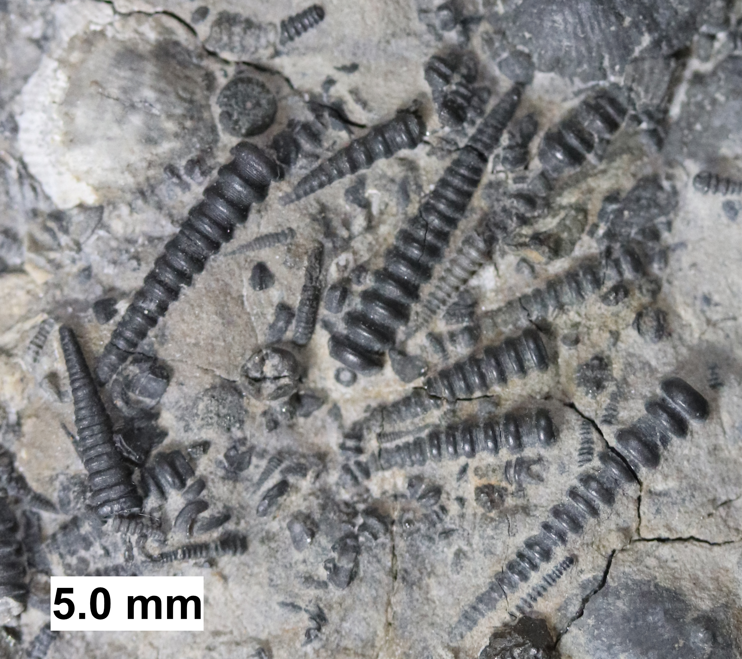 Tentaculites bellulus Hall, 1879; Middle Devonian; Milwaukee Formation; Berthelet Member; Milwaukee County, Wisconsin; MPM 247; collected by C.E. Monroe; photograph originally published in K.C. Gass, J. Kluessendorf, D.G. Mikulic, and C.E. Brett, 2019. Fossils of the Milwaukee Formation: A Diverse Middle Devonian Biota from Wisconsin, USA. Siri Scientific Press, Manchester, UK.